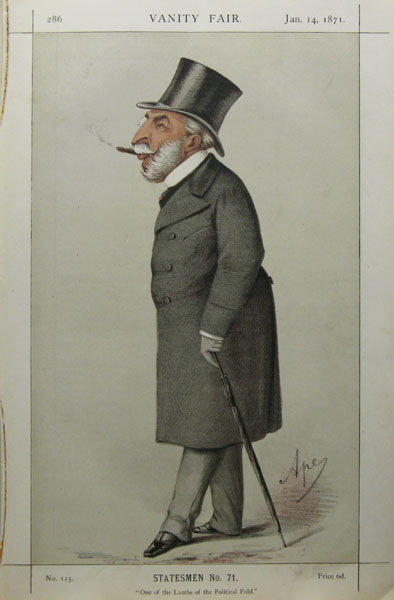 Caritaure of Count Rudolph Apponyi. Caption read "One of the lambs of the Political Fold".